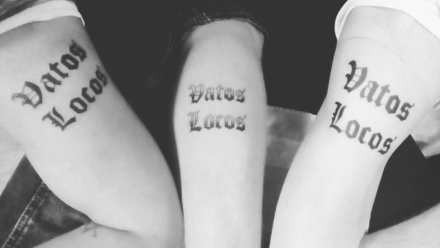 Vatos Locos Tattoo